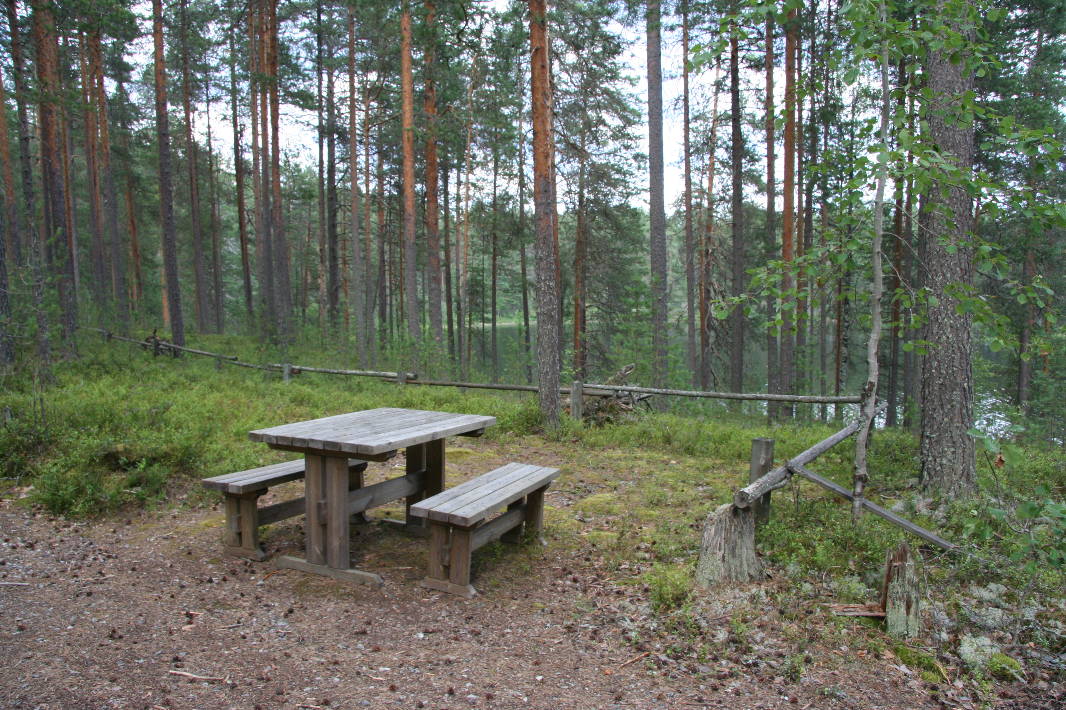 Camping site at Petraniemi, Petkeljärvi National park, Finland